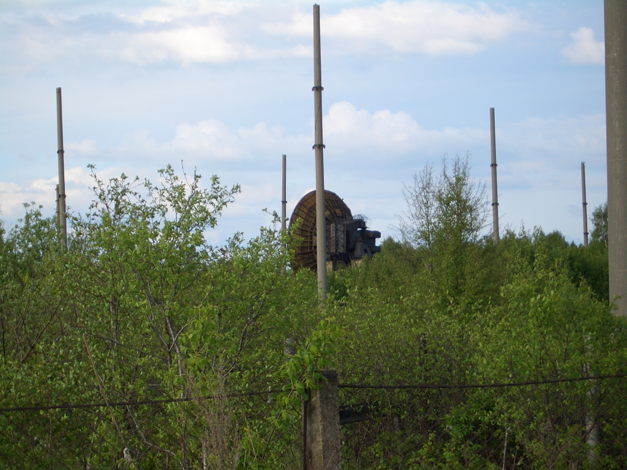 Radiotelescope РТ-15-1 of Zimenki Radio Astronomy Station NIRFI. At present unmounted (apparently sold as scrap metal). Village Zimenki, Kstovo District, Nizhny Novgorod Oblast, Russia.